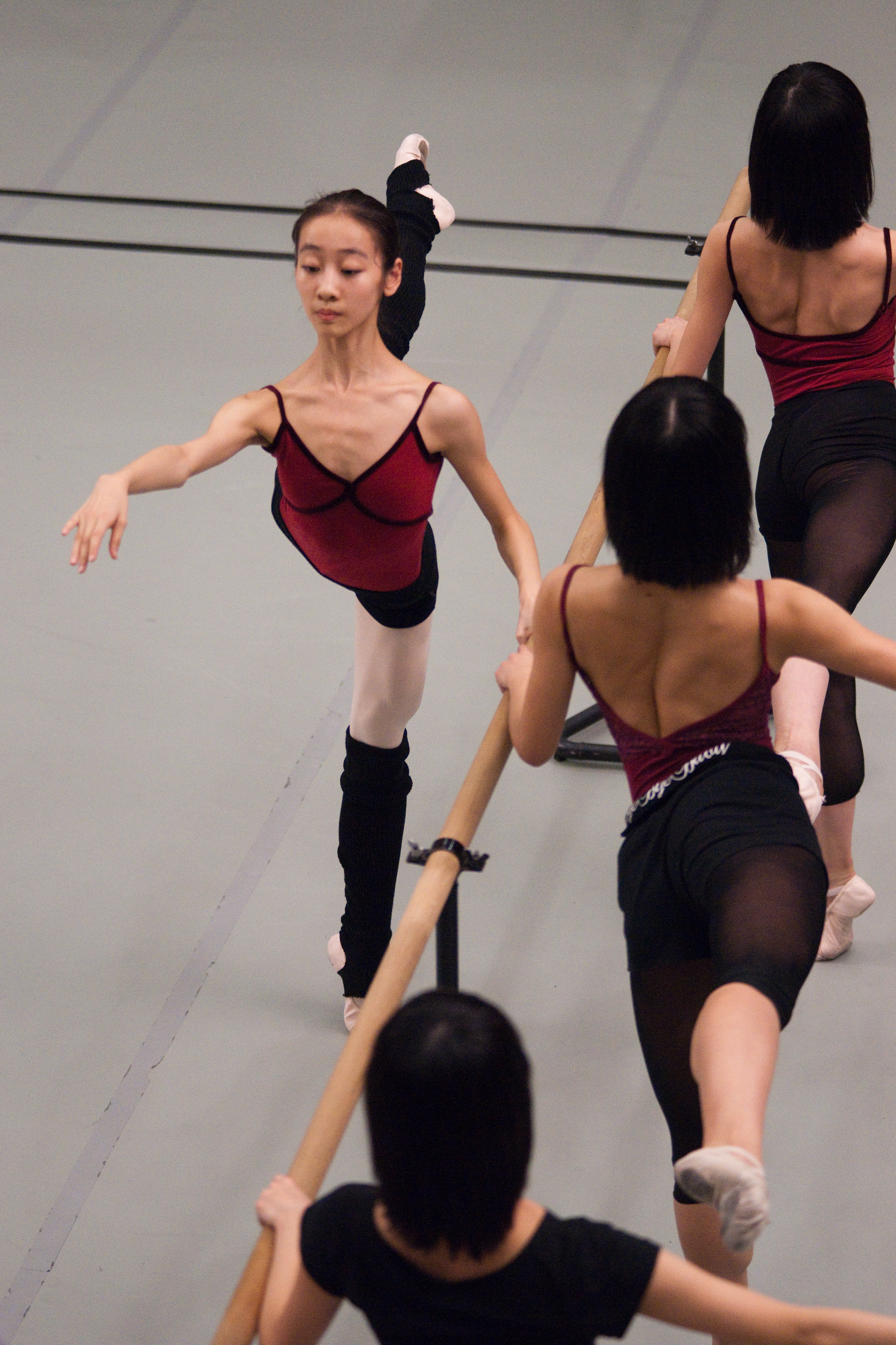 The making of this document was supported by Wikimedia CH. (Submit your project!) For all the files concerned, please see the category Supported by Wikimedia CH.